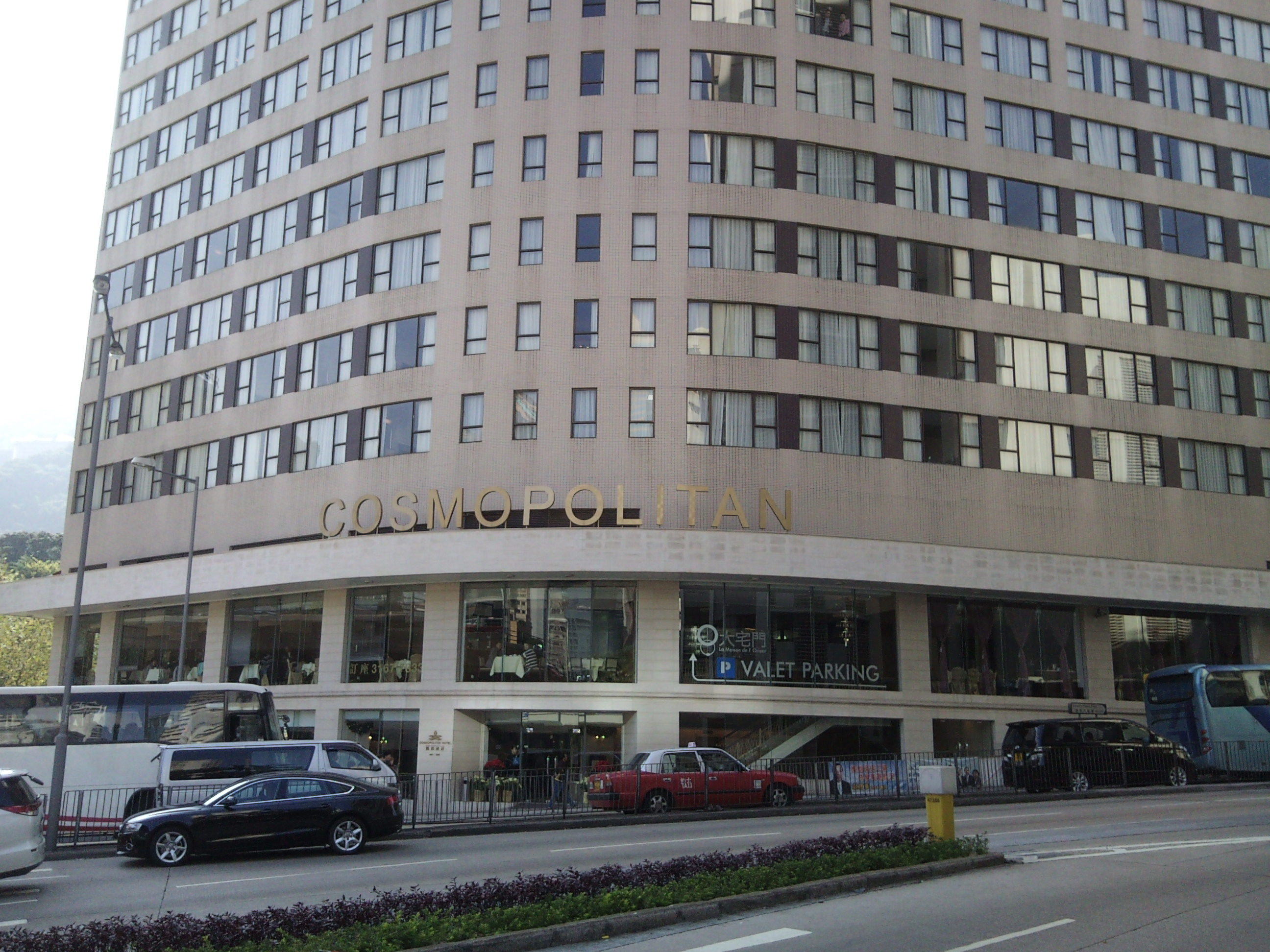 Cosmopolitan Hotel, Hong Kong